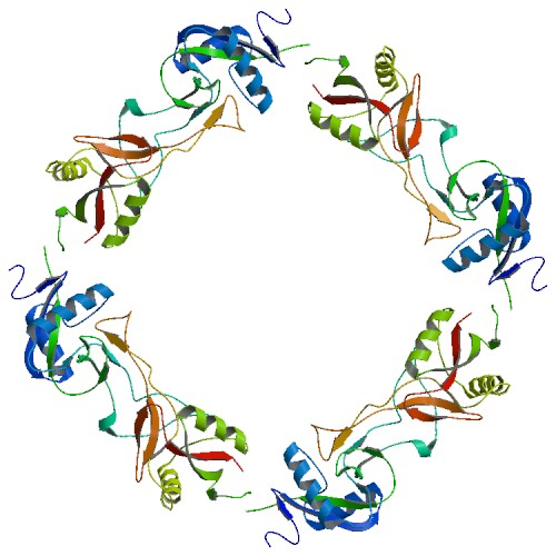 Convulxin is a C-type lectin isolated from the venom of Crotalus durissus terrificus. Structure-wise, it is a disulfide linked heterodimer made up of apha and beta chains. Furthermore, the heterodimers are linked by disulfide bridges.